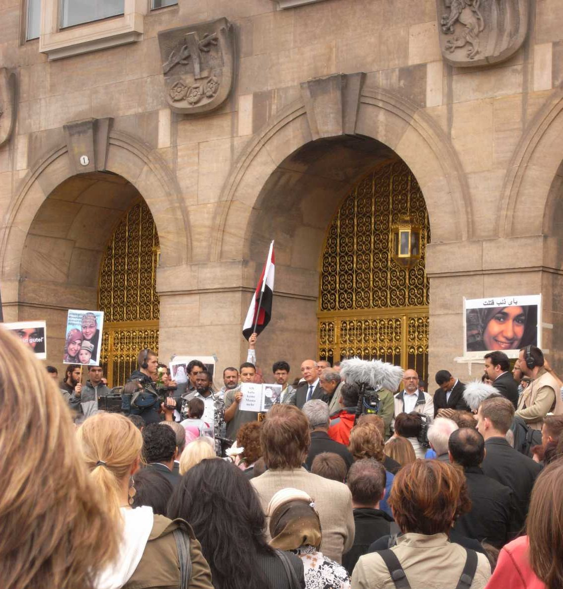 Commemoration for Marwa el-Sherbini at the town hall of Dresden (Saxony, Germany) speaker: Egyptian ambassador